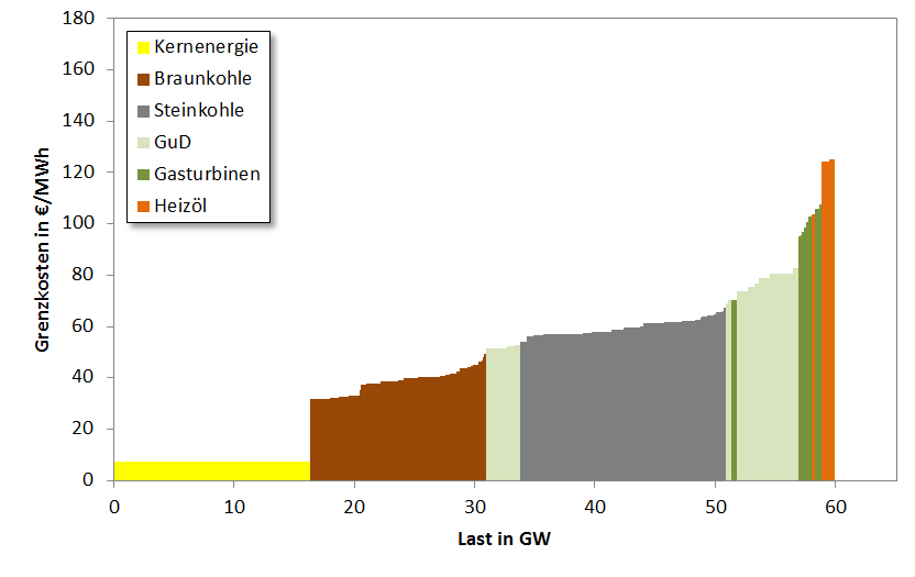 Merit order of the conventional power plant fleet in Germany in 2008